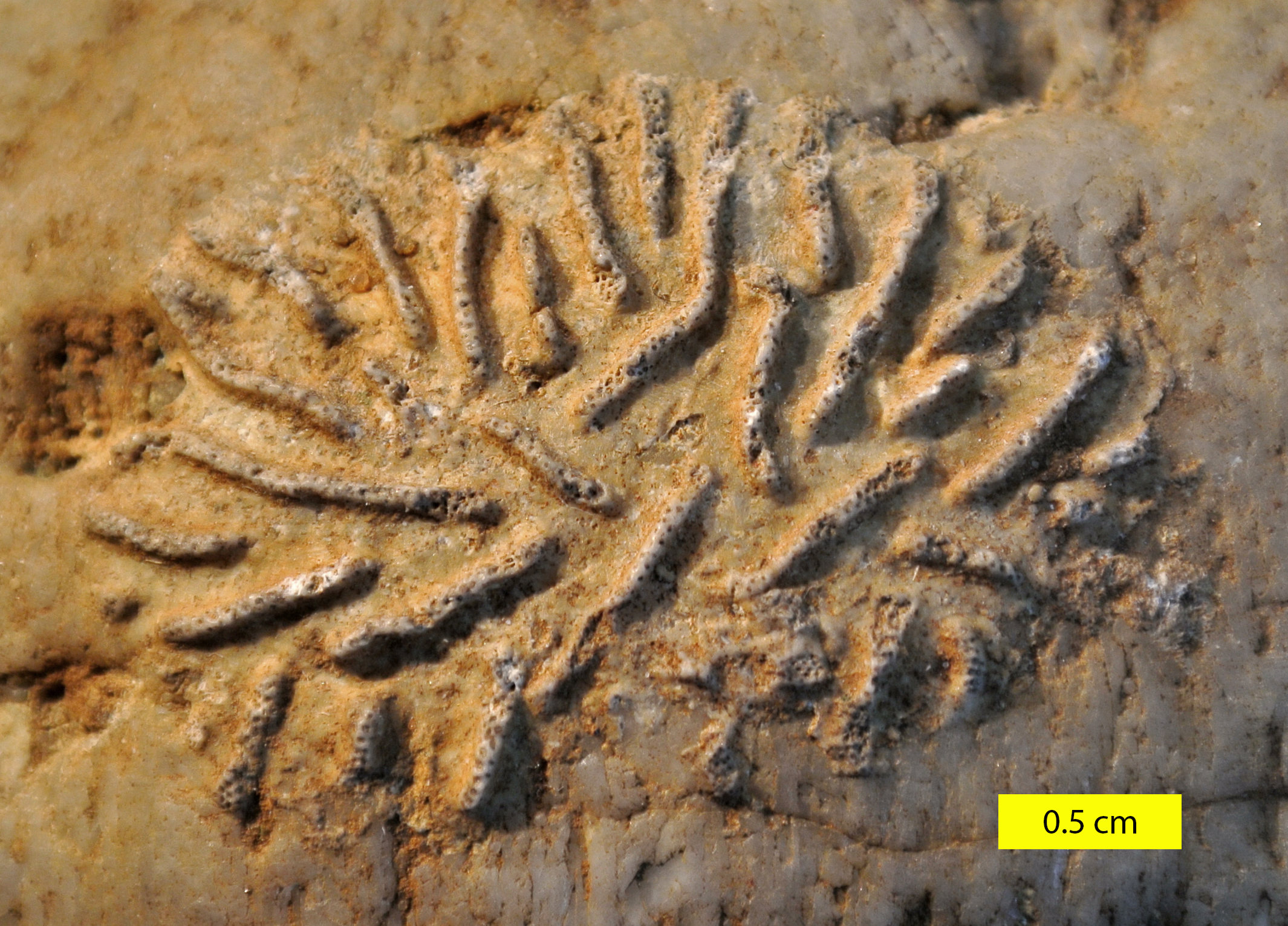 Reptoclausa hagenowi, a bryozoan from the Lower Cretaceous (Aptian) Faringdon Sponge Gravels of England.